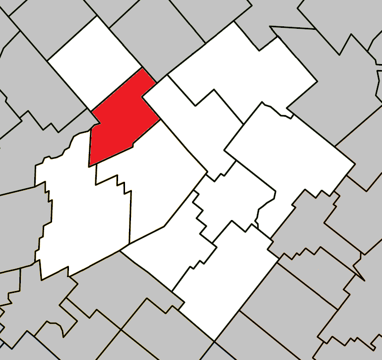 Location of Notre-Dame-de-Lourdes, Quebec within L'Érable Regional County Municipality.